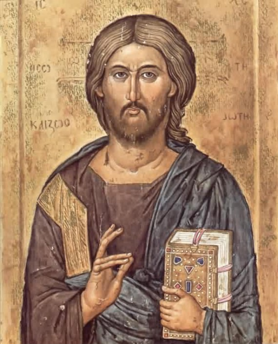 Christ the Pantocrator by Metropolitcan Jovan Zograf (1384)